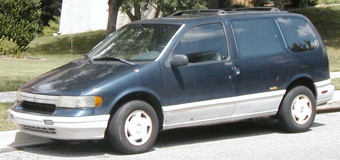 1993-1998 Mercury Villager photographed in USA.